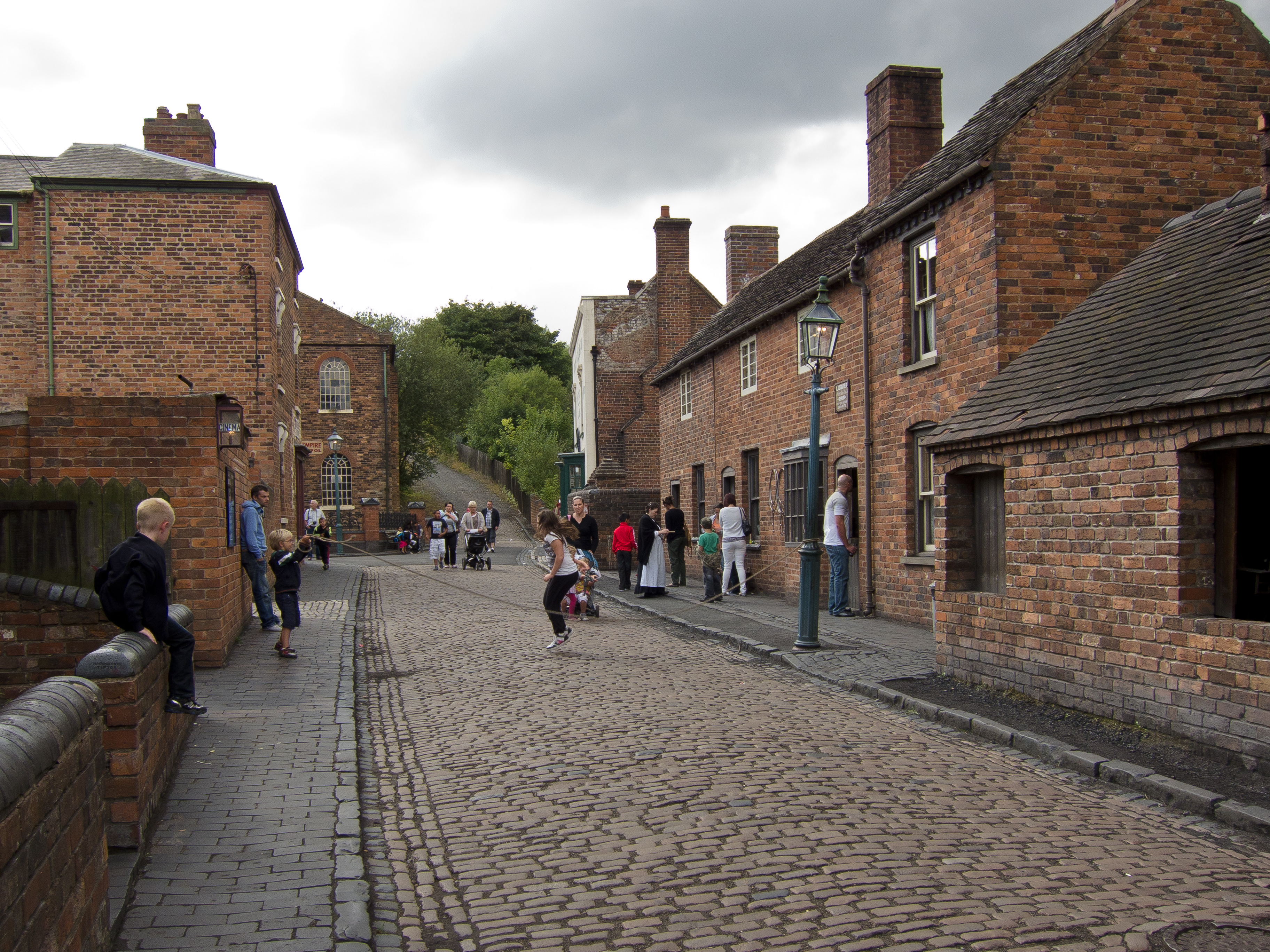 A common sight 40 or 50 years ago